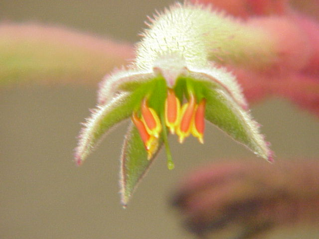 Species: Anigozanthos flavidus Family: Haemodoraceae Image No. 2